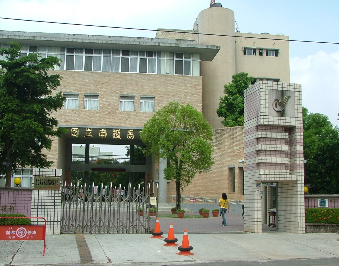 The main gate of National Nantou Commercial High School